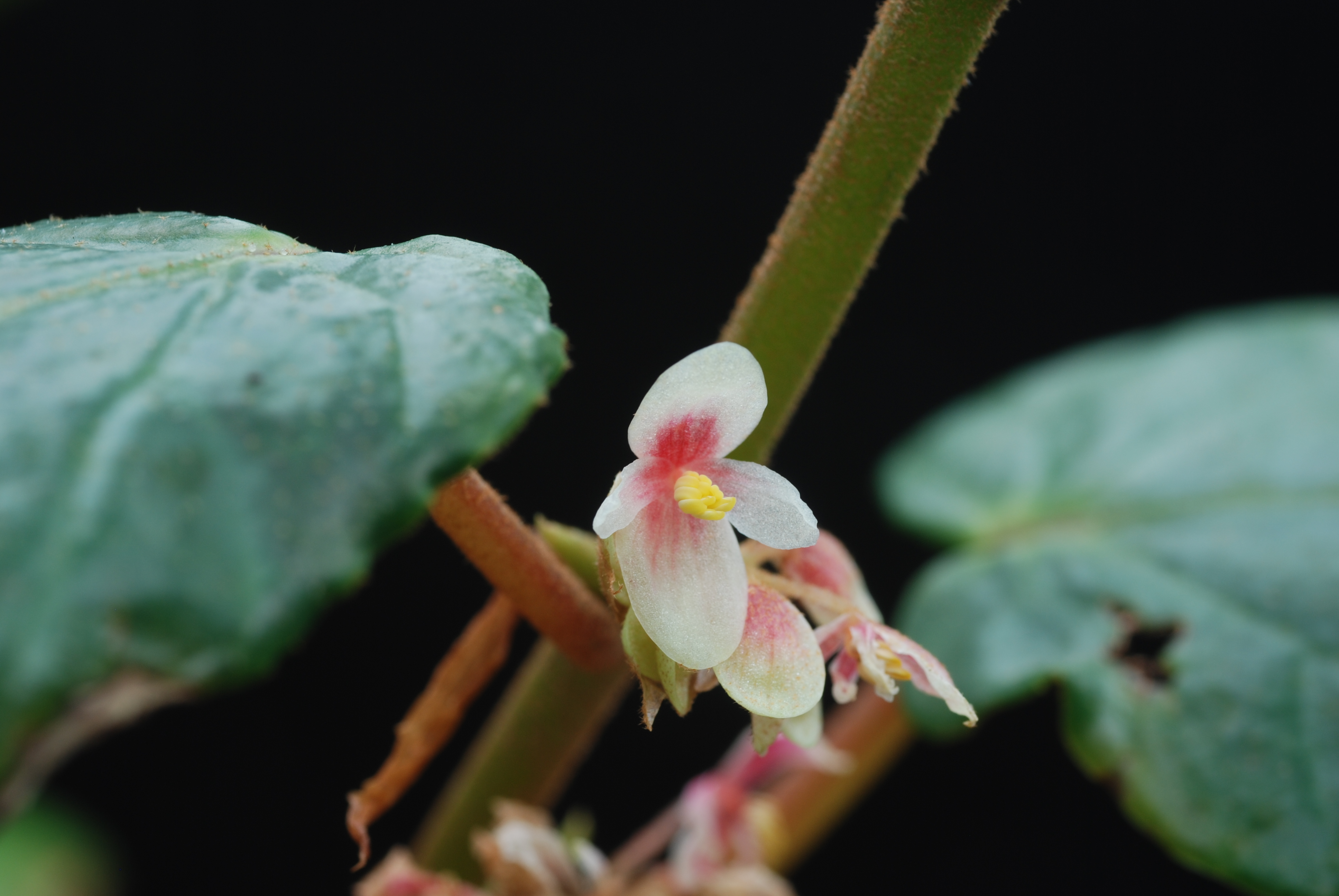 Begonia oxyanthera Warb. Family : Begoniaceae Accession : 20011720-38 National Botanical Garden of Belgium Meise Botanic Garden Native nameNationale Plantentuin van België / Jardin Botanique National de BelgiqueLocationDomein van Bouchout / Domaine de BouchoutNieuwelaan 381860 MeiseBelgiumCoordinates50° 55′ 42.28″ N, 4° 19′ 36.78″ E Established1826: established, 1870: became publicly owned,Web page control : Q3052500 VIAF: 159423716 ISNI: 0000 0001 2195 7598 LCCN: n50078011 NLA: 35880480 SELIBR: 120680 WorldCat institution QS:P195,Q3052500 Created under the volunteer photographer program at the National Botanical Garden of Belgium.